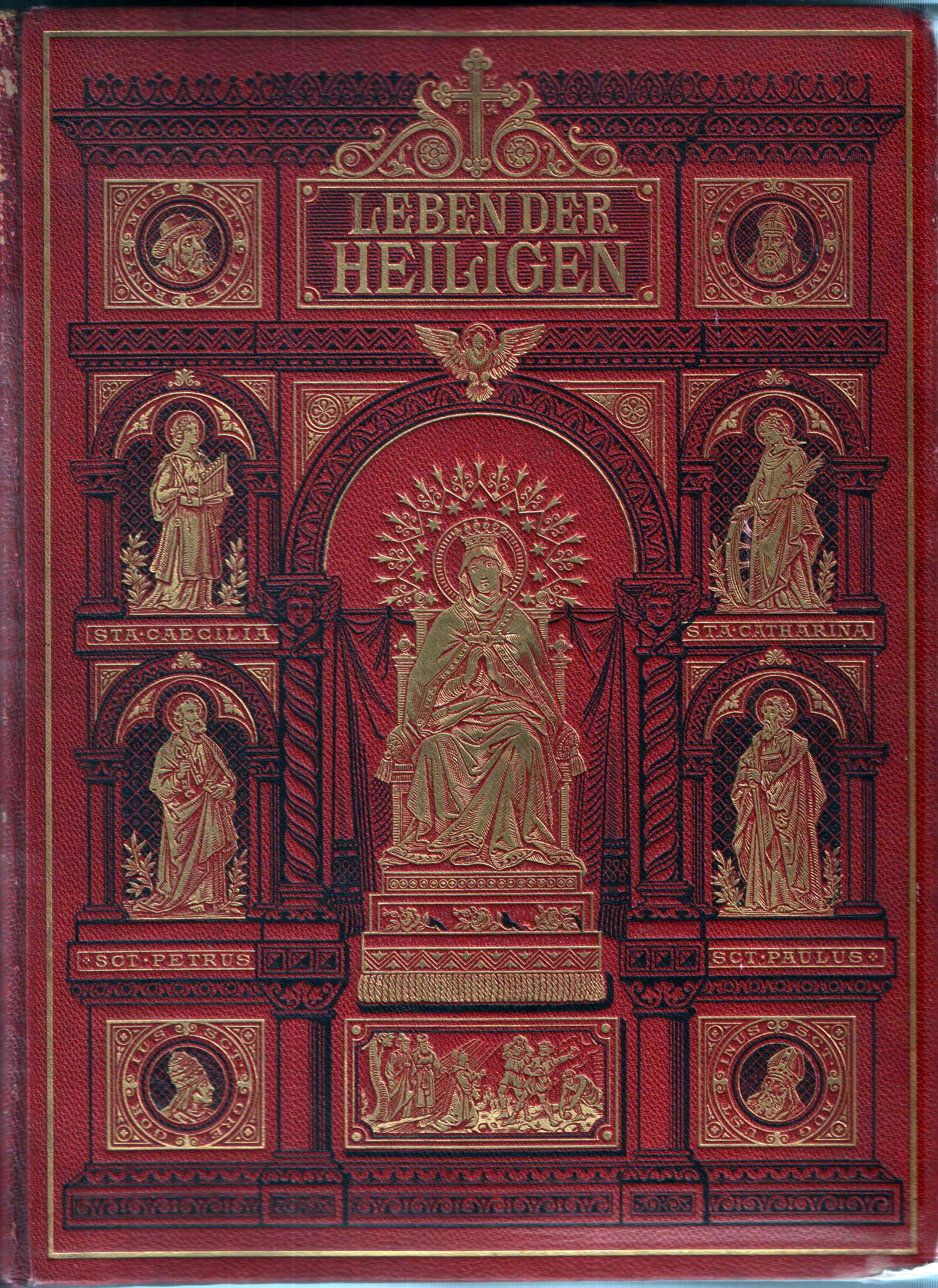 Cover of book Leben der Heiligen (Life of Saints)